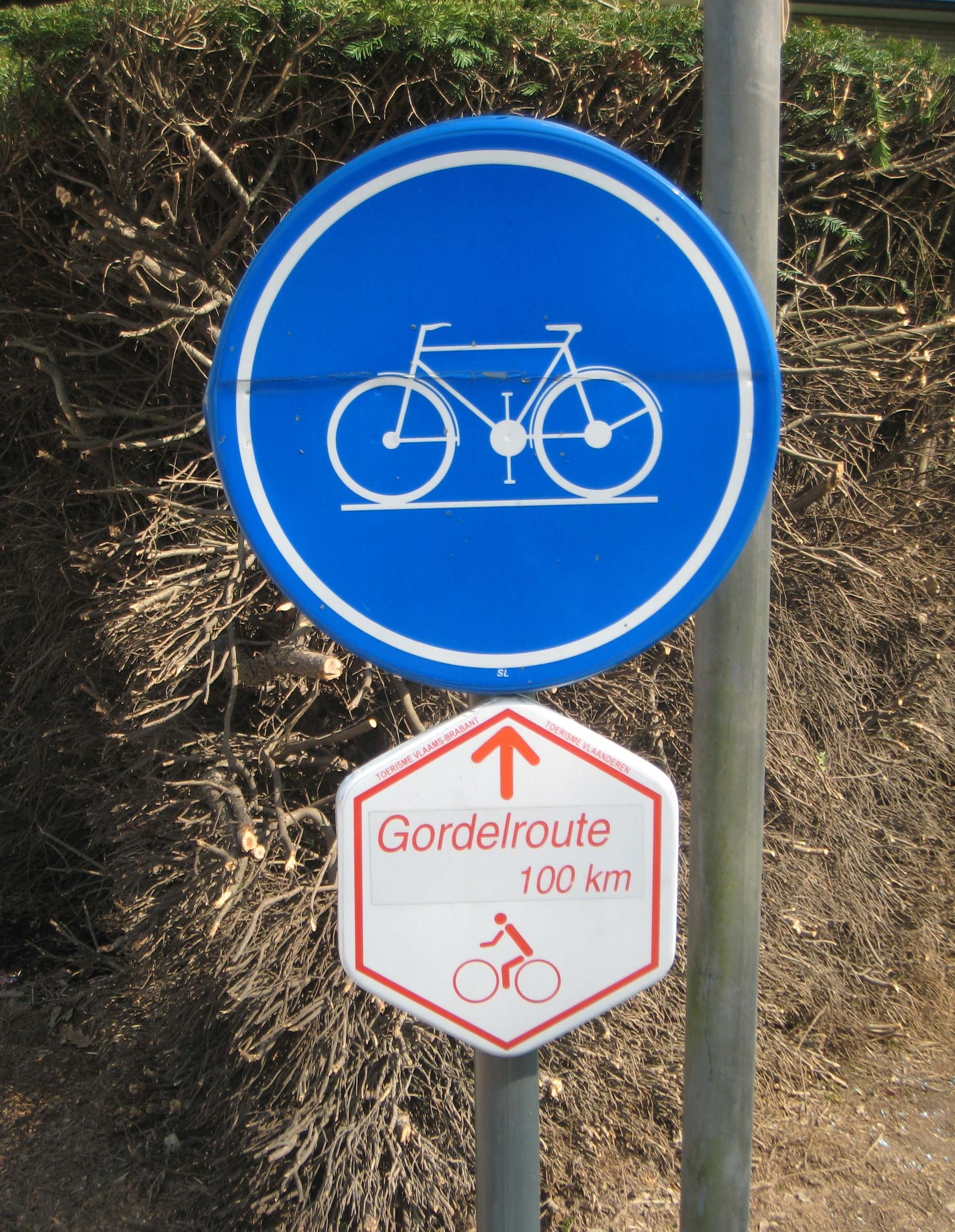 Signpost for the (permanent) 'Gordelroute' cycling route which encircles Brussels